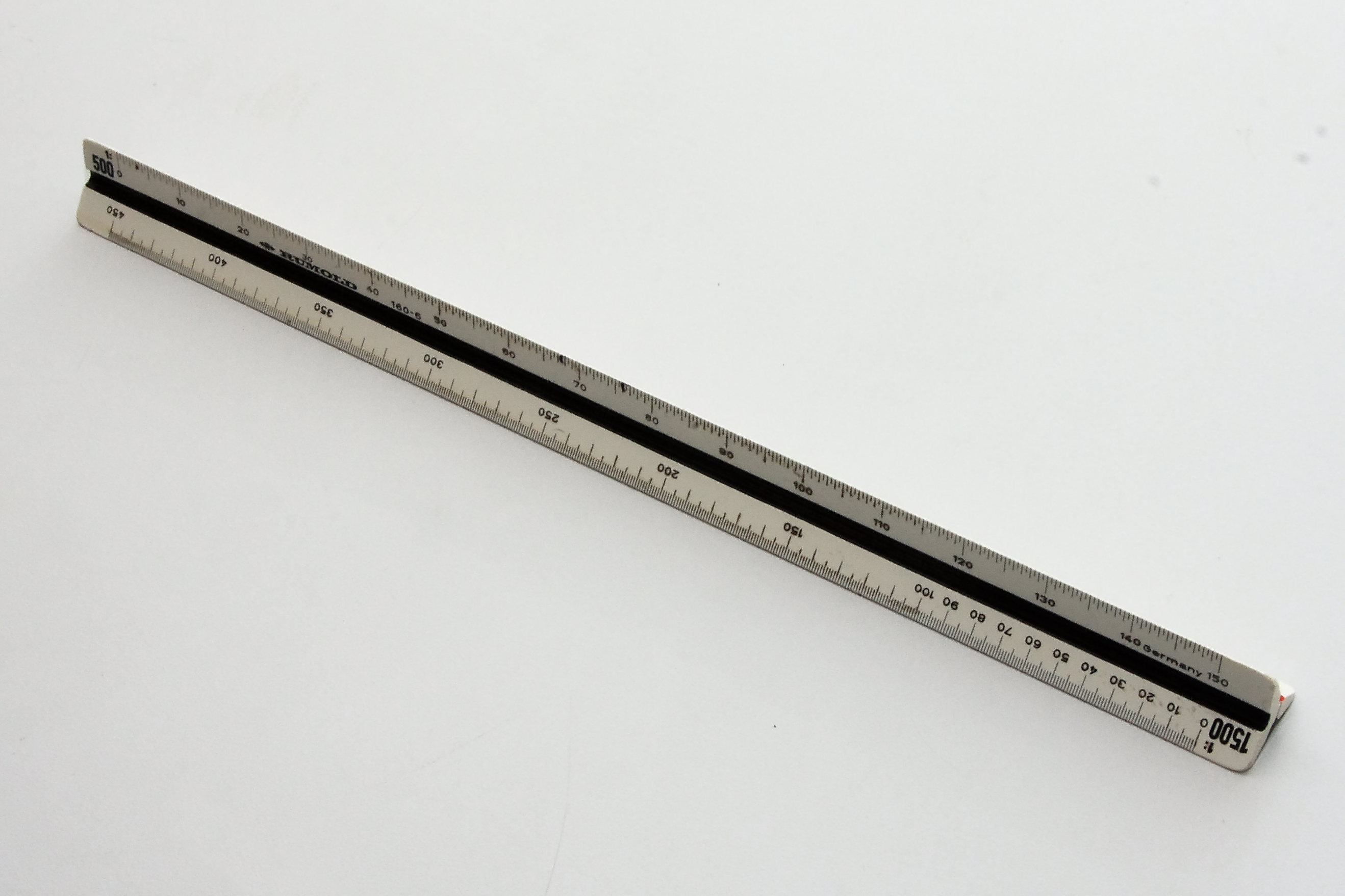 Three-edged ruler, used for mapping and architectural drawings.